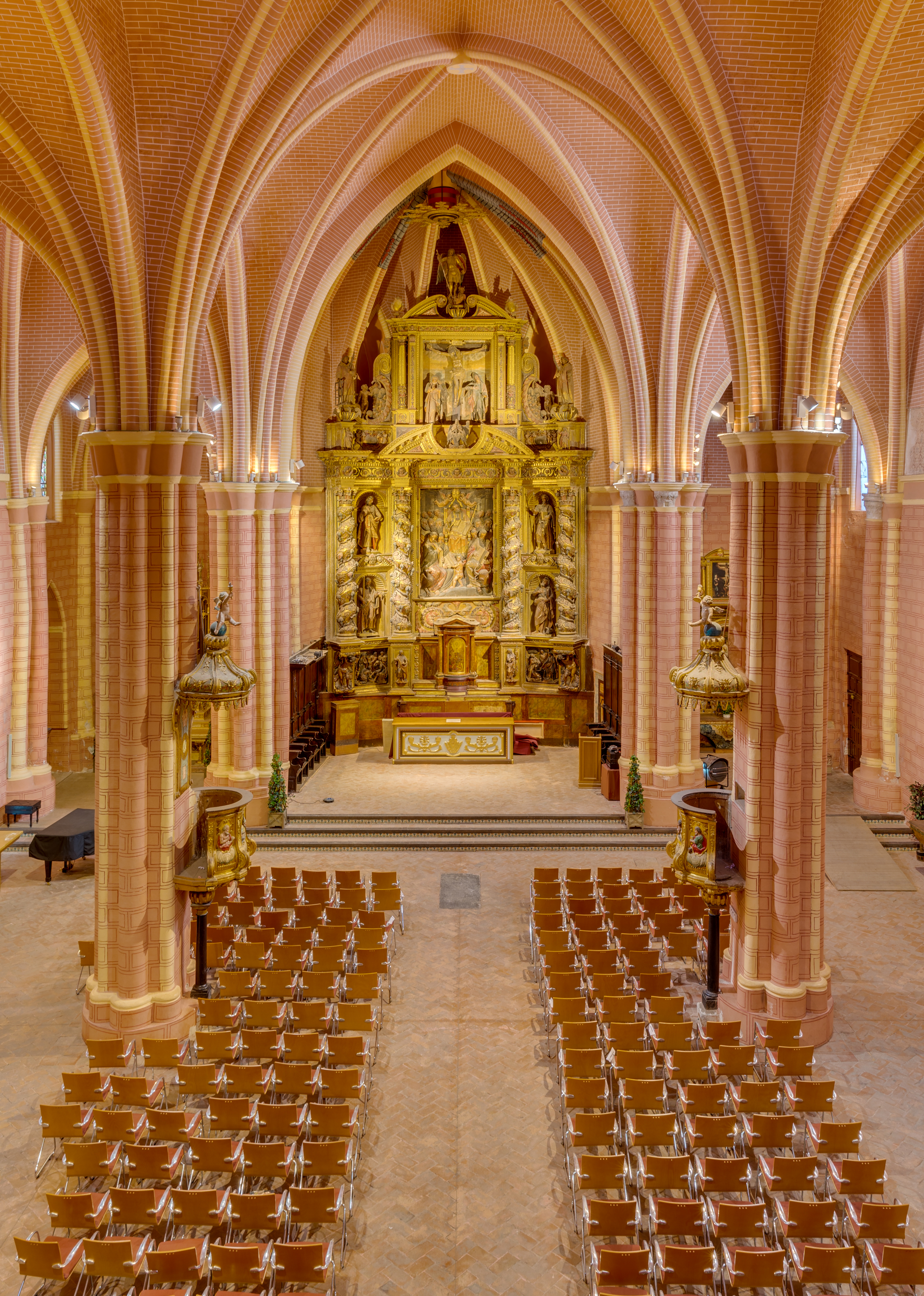 Upper view of the main nave of the Gothic church of San Pedro de los Francos, in Calatayud, Aragon, Spain. The original temple was founded in the 12th century by order of Alfonso I, "The Battler". He wished to offer the French who settled in Calatayud after helping him in the Battle of Cutanda (1120) against the Almoravids a place to pray. The current church was built two centuries later.